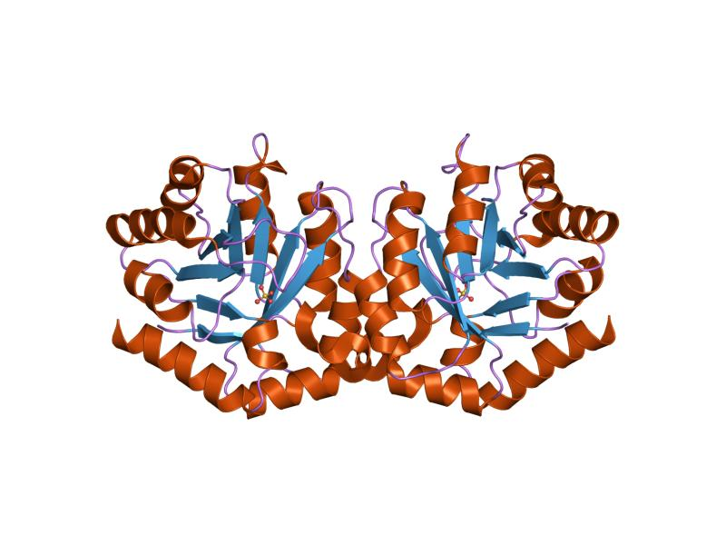 Cartoon representation of the molecular structure of protein registered with 1h1y code.